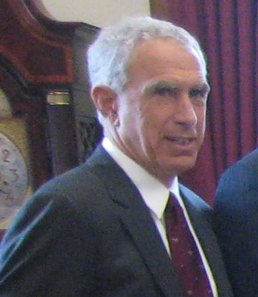 UConn football head coach Paul Pasqualoni visits the Connecticut State Capitol in 2011 for Husky Day.